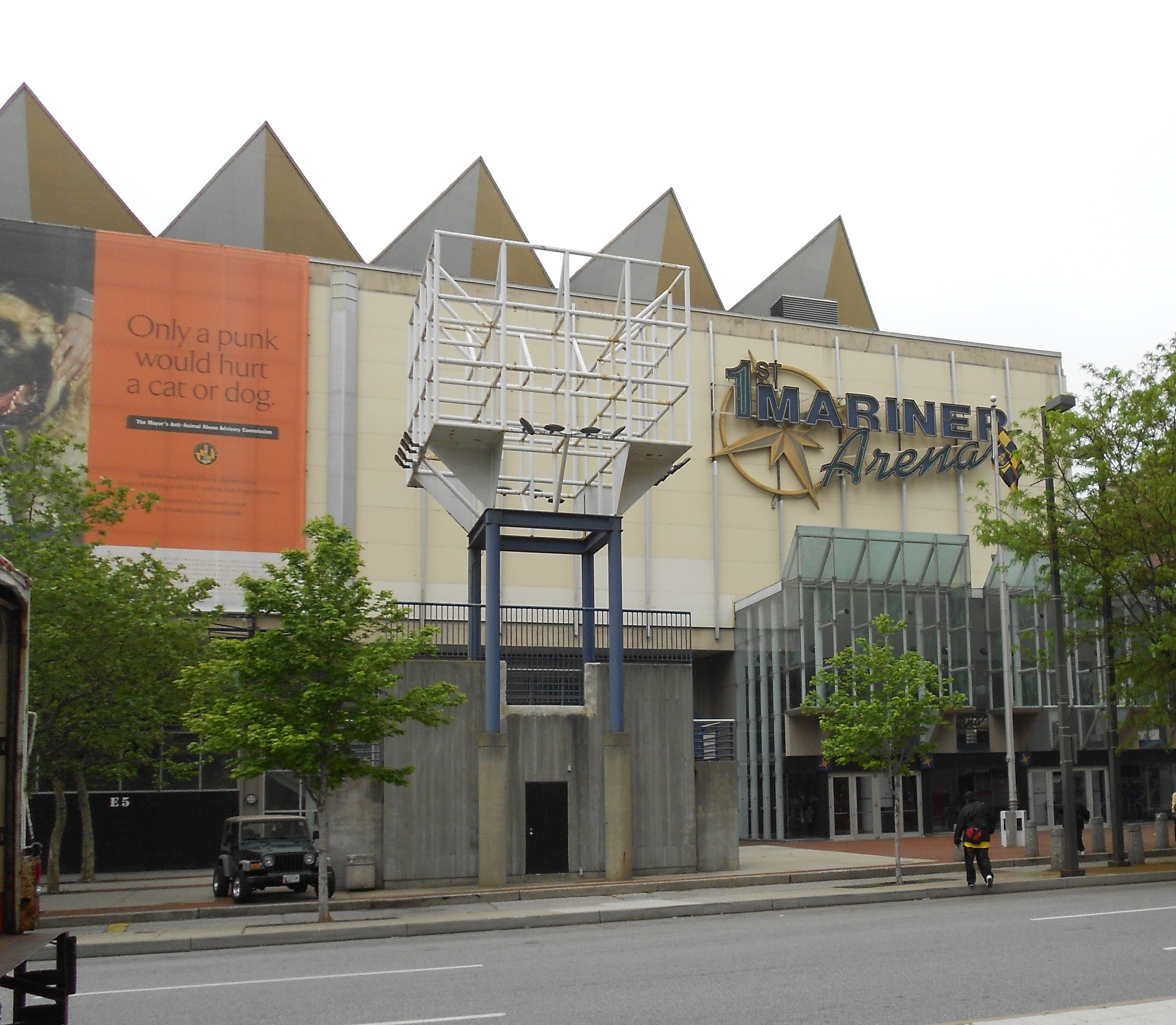 First Mariner Arena in Downtown Baltimore